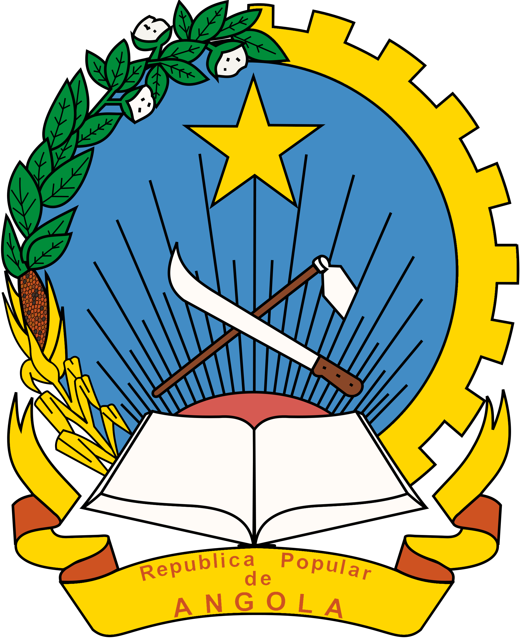 Emblem of the People's Republic of Angola (1975-1992)